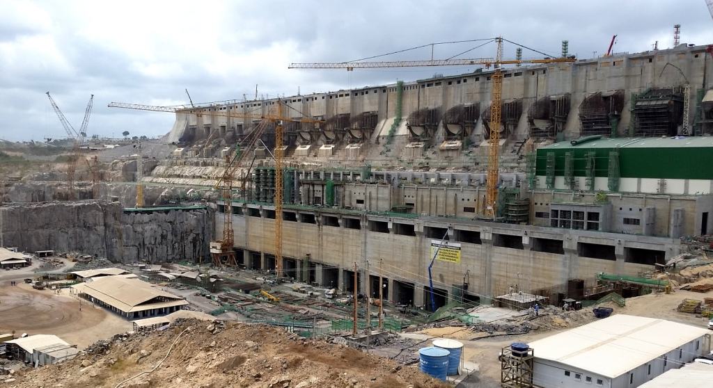 Belo Monte